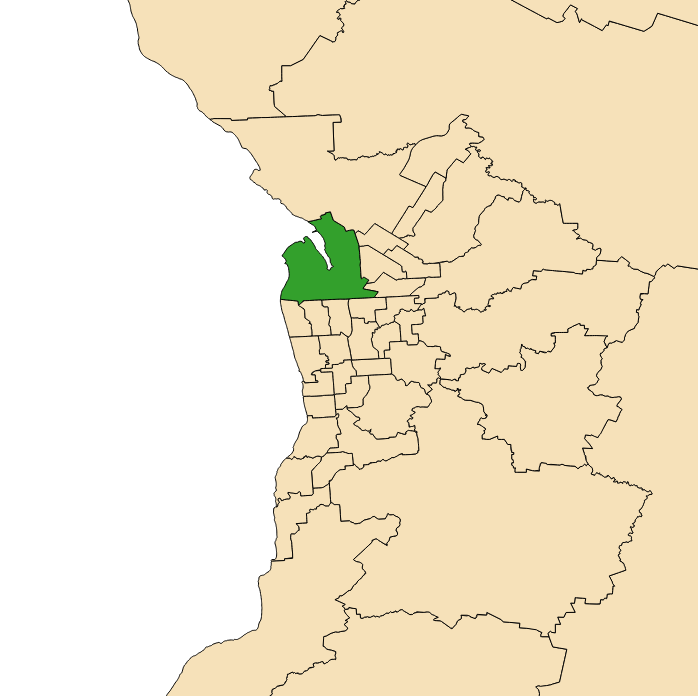 Electoral district 2018 boundaries shown in green